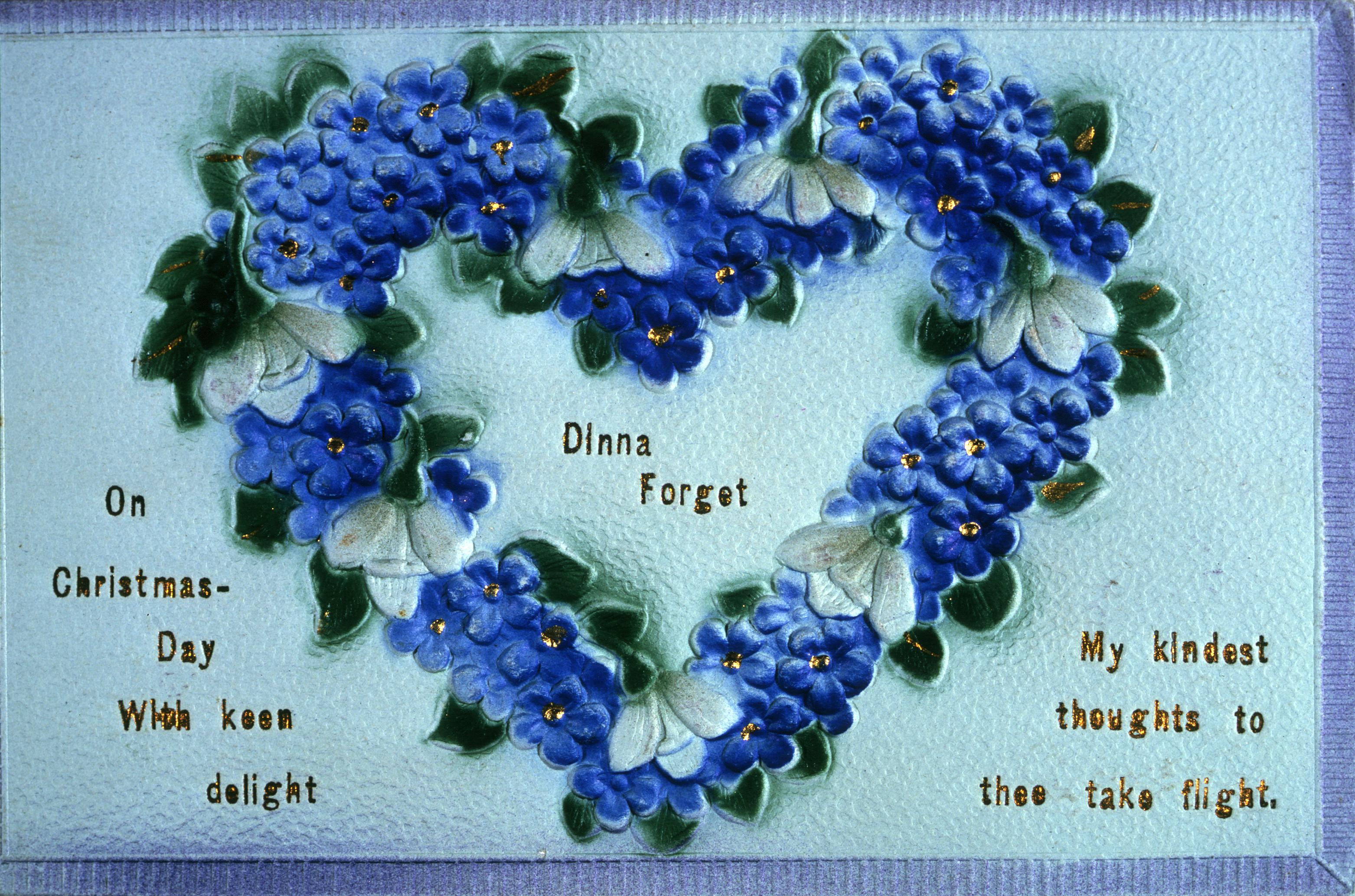 Shows an embossed heart-shaped wreath of blue and white flowers, with text in gold. Inscriptions: Inscribed - Verso - centre: [Letter to May from Alice, her cousin]. . Quantity: 1 colour photo-mechanical print(s) on postcard.. Physical Description: Photolithograph, coloured, 90 x 140 mm. Provenance: Donated by Mrs R L Wilson in 1982. Wilson, R Lois (Mrs), fl 1990. [Postcard]. On Christmas Day with keen delight, Dinna forget, My kindest thoughts to thee take flight / J Beagles & Co. Ltd. E. C. Printers and Publishers. [1905-1910].. [Postcard album of cards collected by May Stephens. ca 1905-1915].. Ref: Eph-B-POSTCARD-Vol-1-110-2. Alexander Turnbull Library, Wellington, New Zealand.